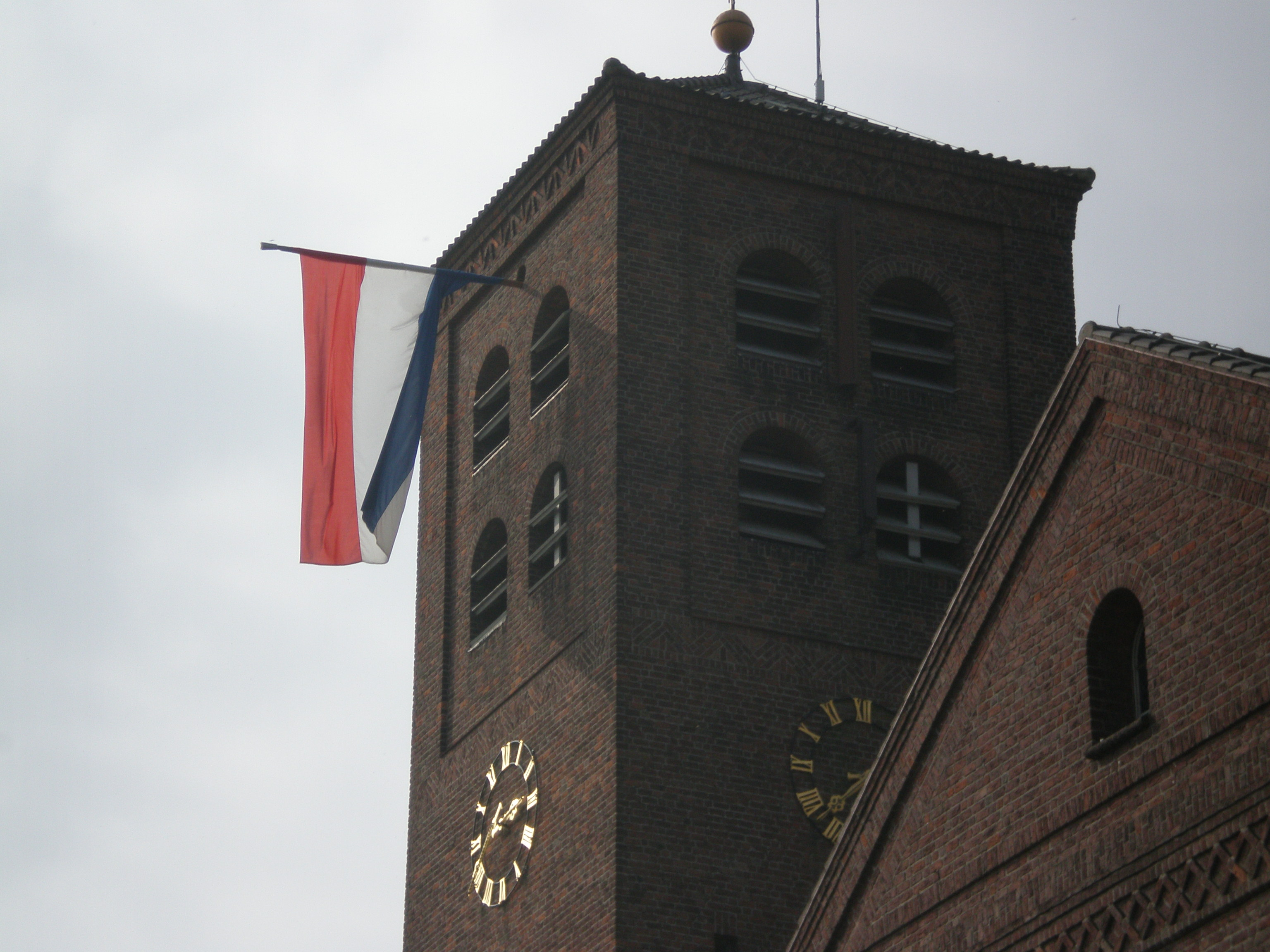 Church in Ammerzoden with the great red-white-blue flag, the Dutch national tricolour.